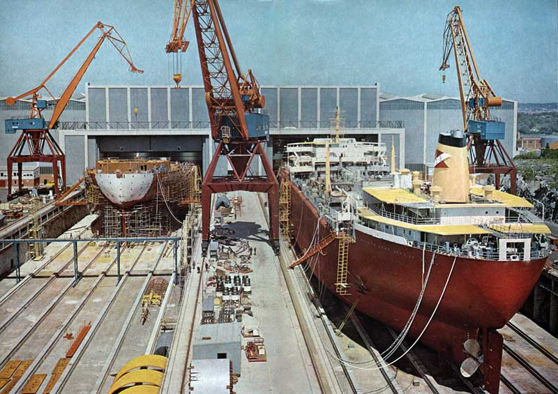 Arendal Shipbuilding Yard Gothenburg